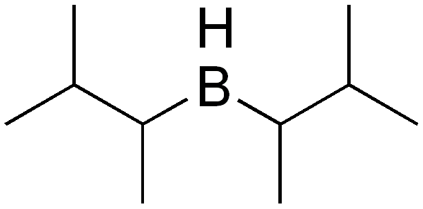 chemical structure of disiamylborane